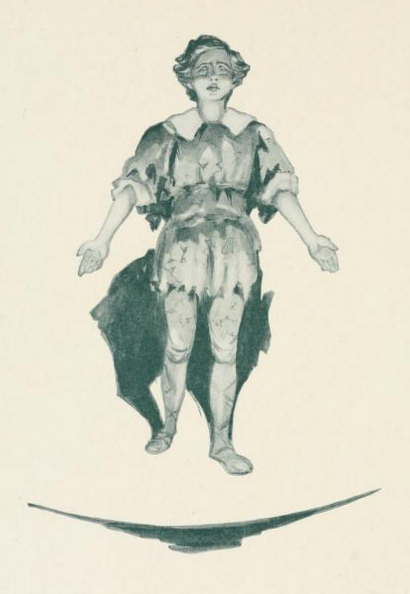 Peter Pan, by Oliver Herford, "The Peter Pan Alphabet", Charles Scribner's Sons, New York, 1907, page 39